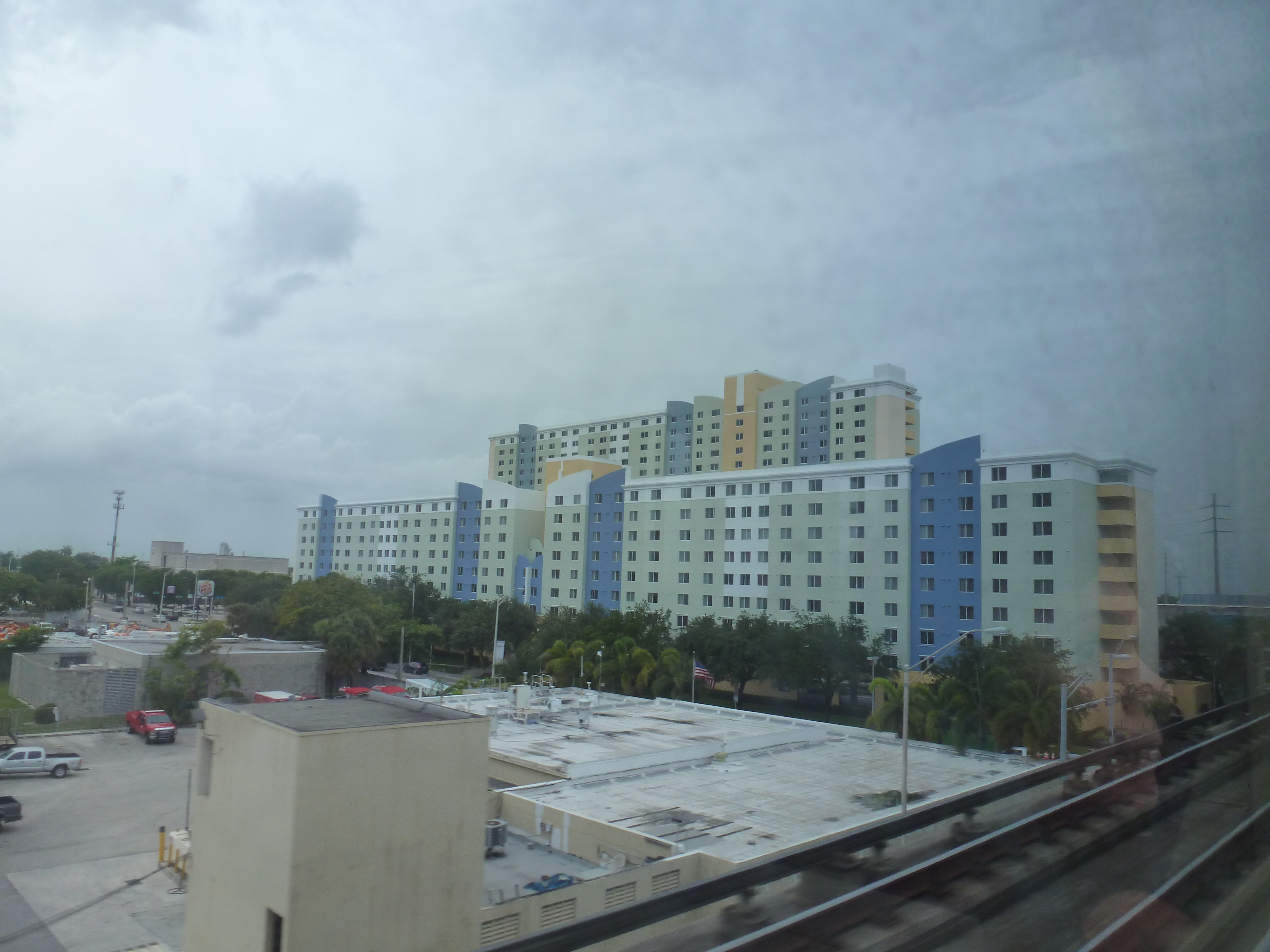 Transit-oriented development at Metrorail (Miami-Dade County station.